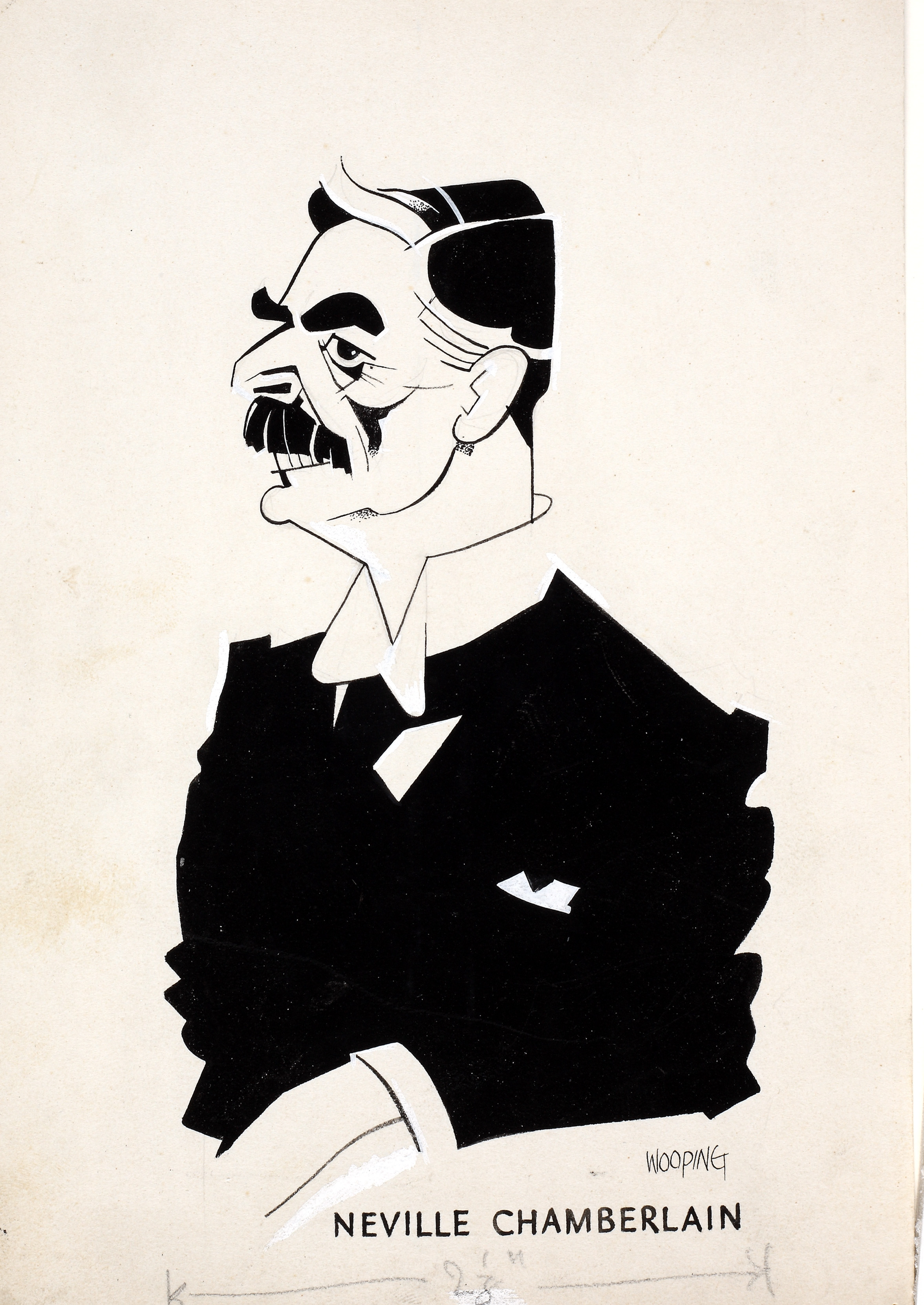 Neville Chamberlain Depicted person: Neville Chamberlain